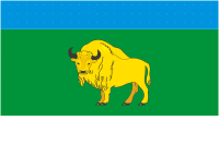 Mostovskoi rayon (Krasnodar krai), flag